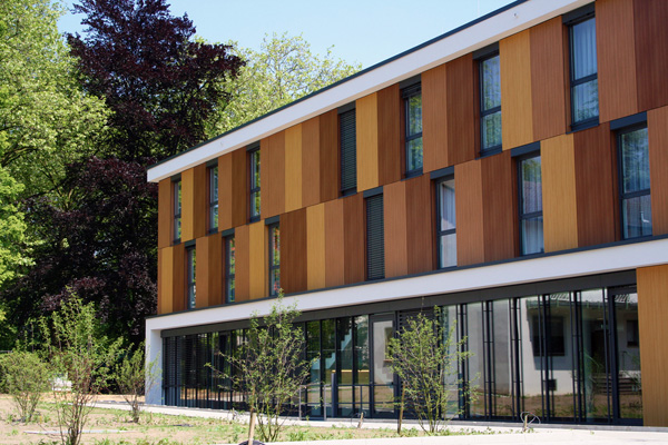 View from the garden of the ***-Hotel Franz in Essen, Germany.